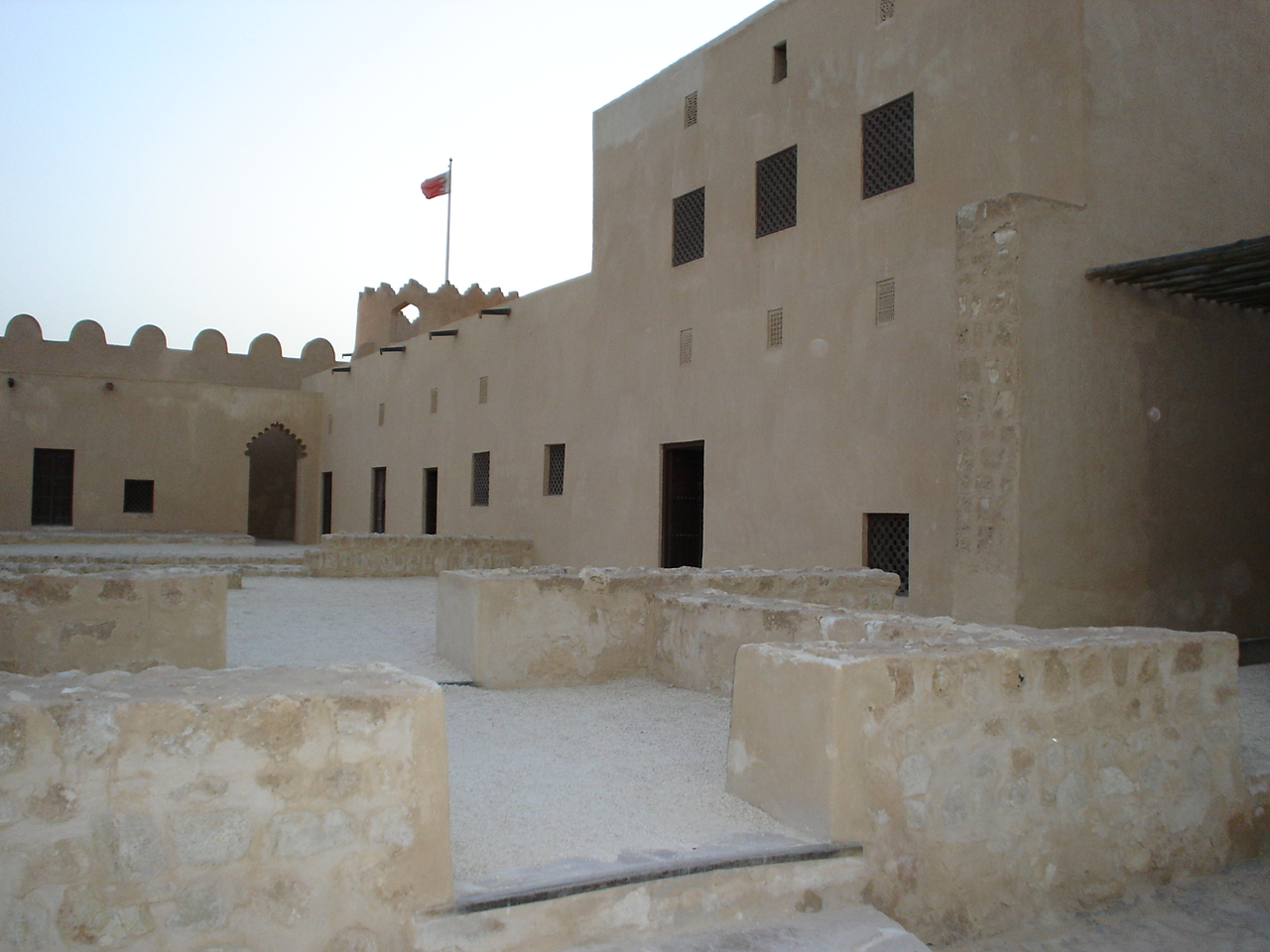 Picture of Riffa Fort interior. Photography: Shijaz Abdulla / Shijaz